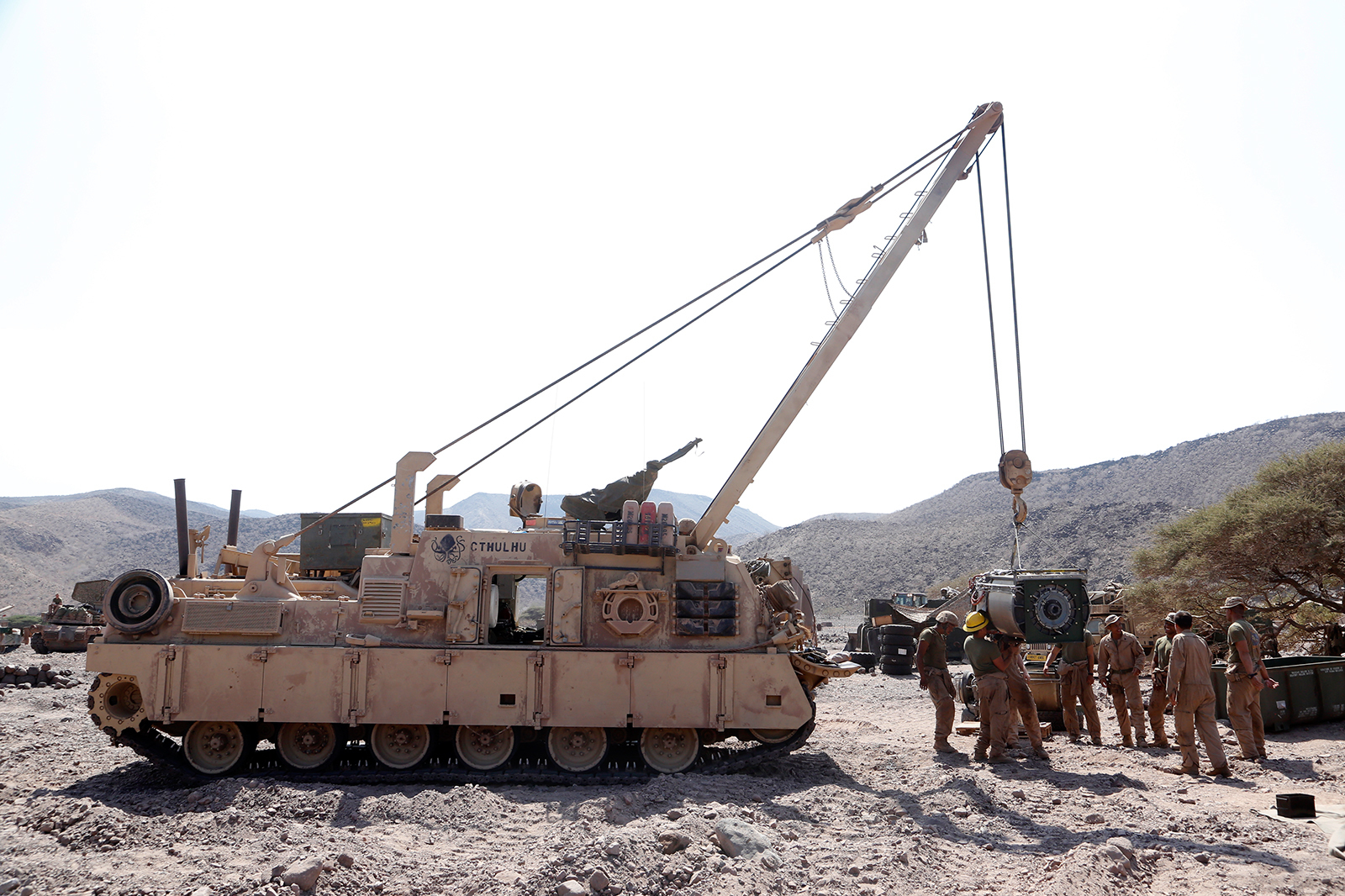 U.S. Marines with the 11th Marine Expeditionary Unit (MEU), replace a M1A1 Abrams tank engine with the help of an M88 tank retriever during sustainment training at D’Arta Plage, Djibouti, Nov. 6. The 11th MEU is deployed as a theater reserve and crisis response force throughout U.S. Central Command and the U.S. 5th Fleet area of responsibility. (U.S. Marine Corps photos by Gunnery Sgt. Rome M. Lazarus/Released)